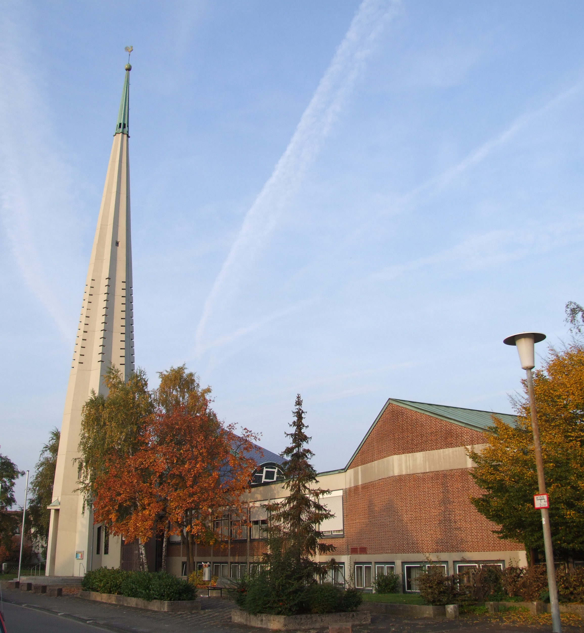 The Christuskirche is the church and the center of the protestants of Speyer-Nord, Germany. It complex ist build 1961-1964.